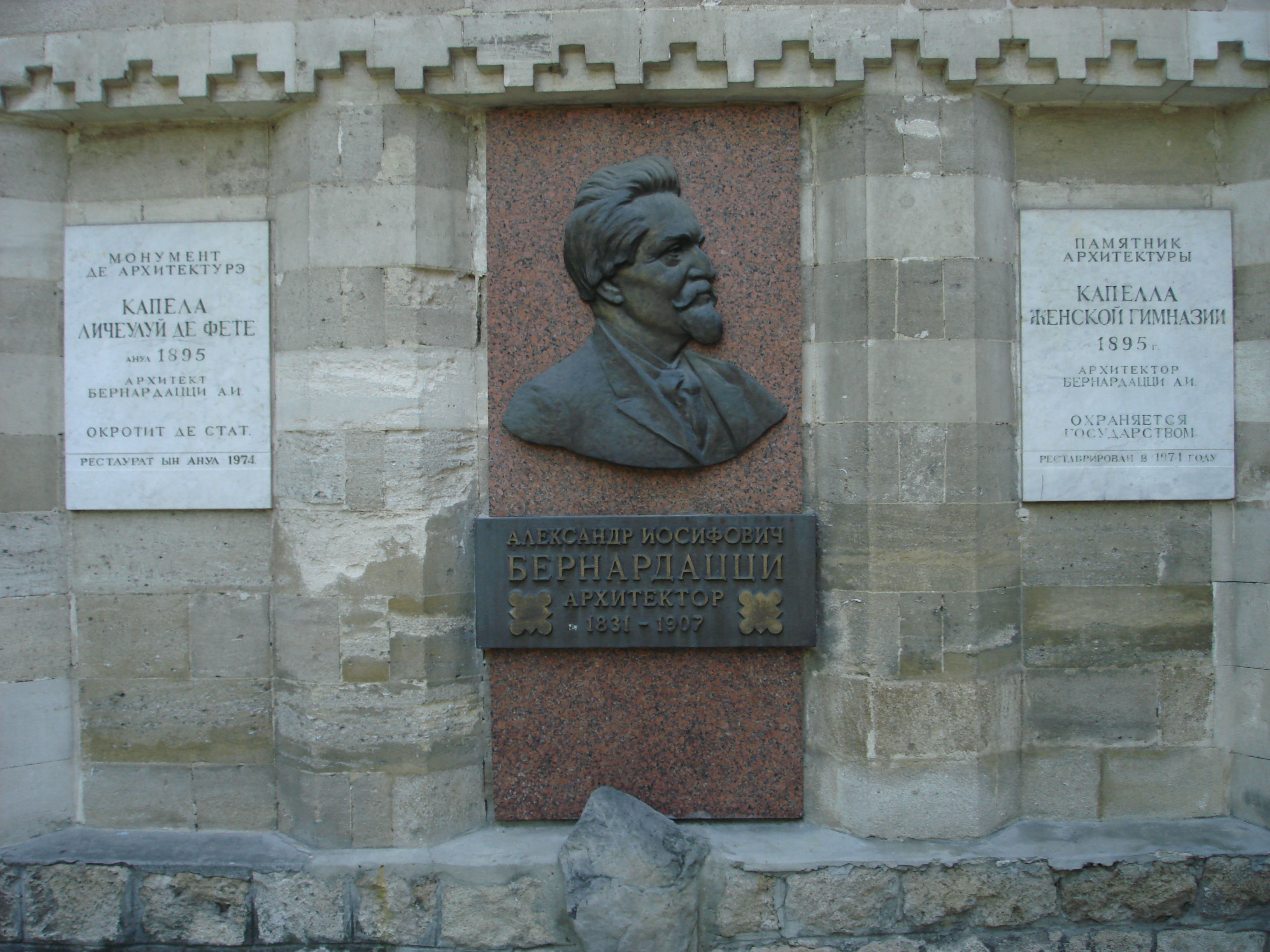 Stone Church of Saint Theodora from Sihla, by architect Al. Bernardazzi, is built in 1895 in Downtown Chişinău. Designed and built as a Cathedral of girls high school in Chişinău, the church of Saint Teodora de la Sihla is an architectural masterpiece by Al Bernardazzi. The building have the fingerprints of Byzantine style, typical for the creation of architect A. Bernardazzi. It is of national importance in Moldova and the owner is Metropolis of Bessarabia.